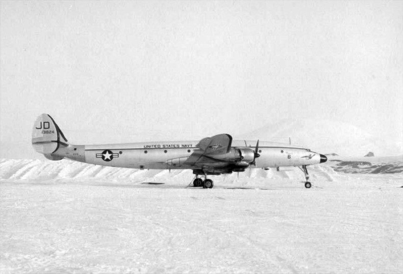 A U.S. Navy Lockheed C-121J Constellation (BuNo 131624) of squadron air development squadron VX-6 at Williams Field, McMurdo Sound, Antarctica, on 1 November 1964.